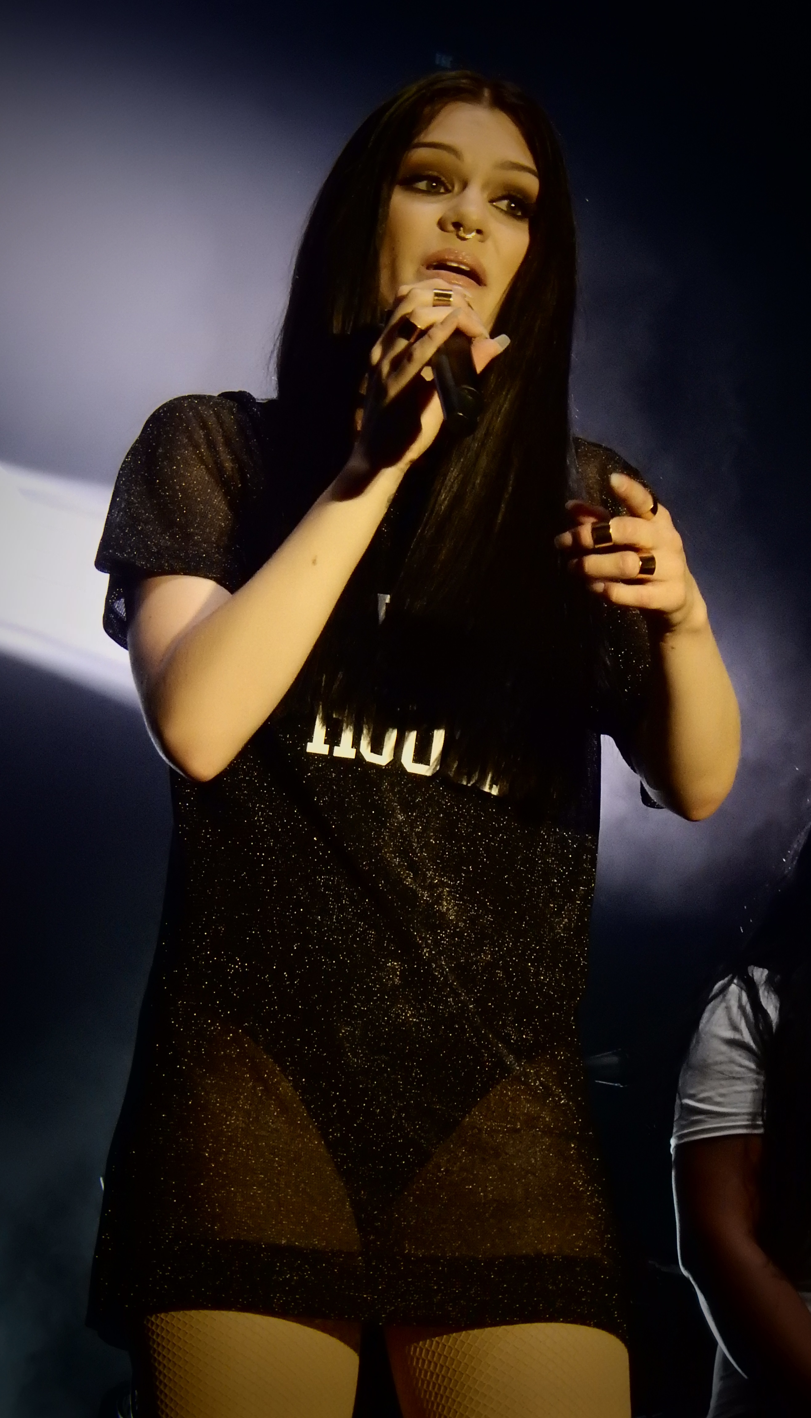 Jessie J performing at Somerset House in London, England